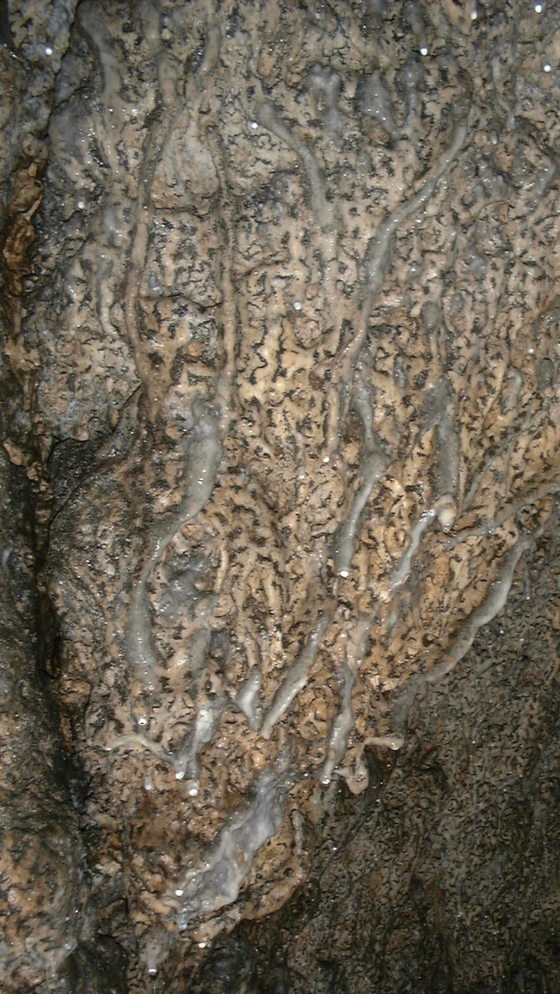 Poland, speleothem in Nietoperzowa Cave.